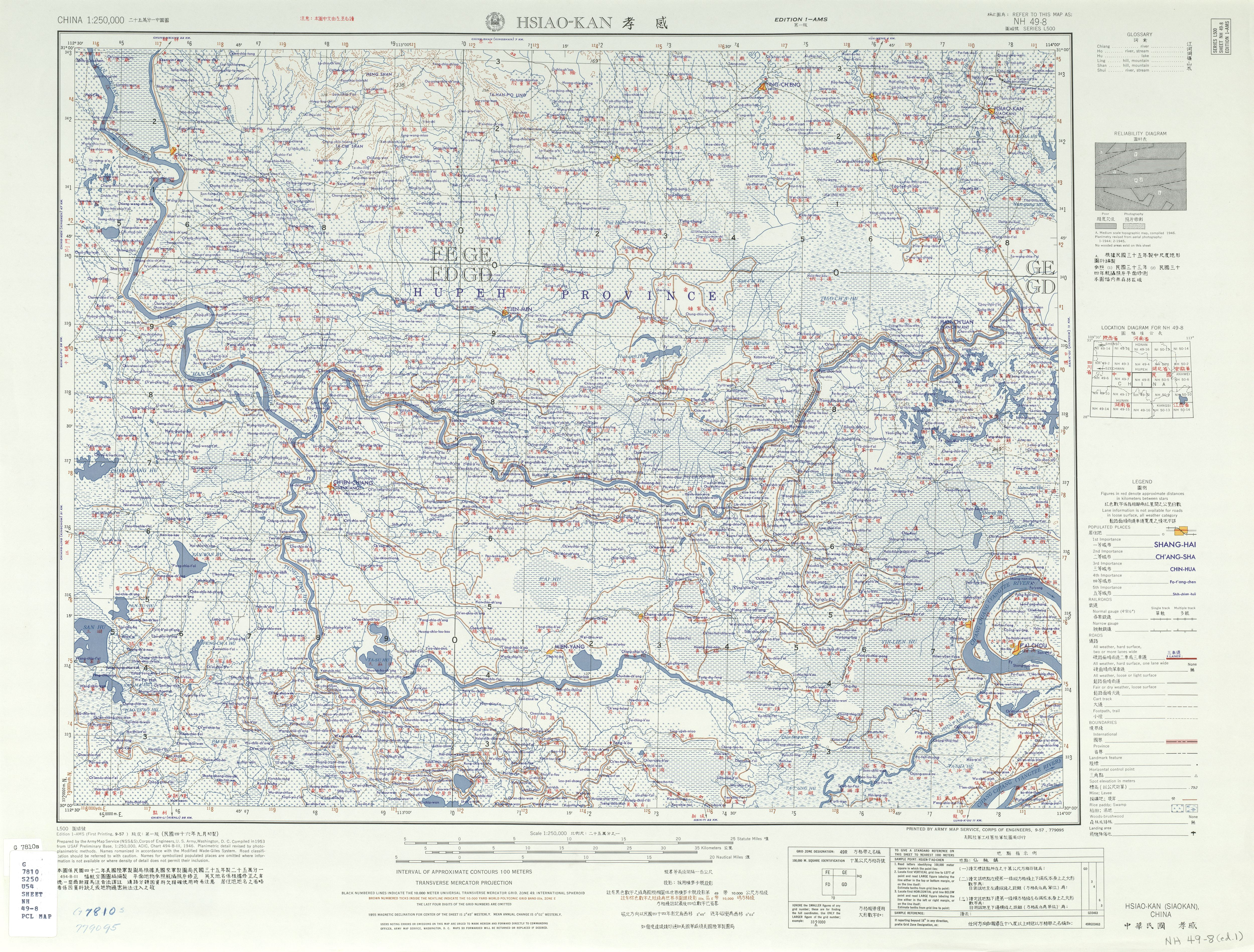 China AMS Topographic Maps